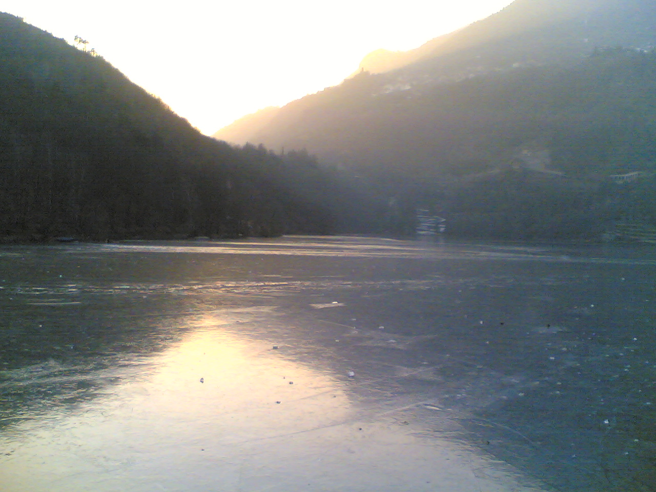 Lago Moro (Italy) iced